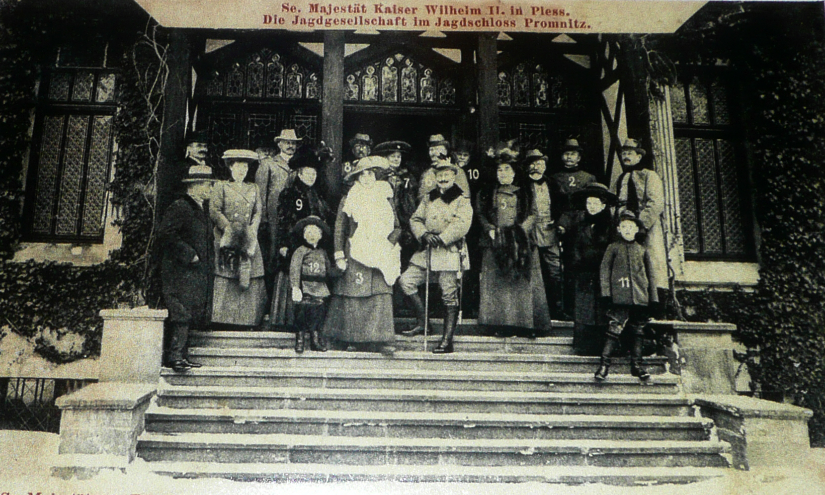 Cesarz Wilhelm II in the Hunting Castle Promnice in 1908